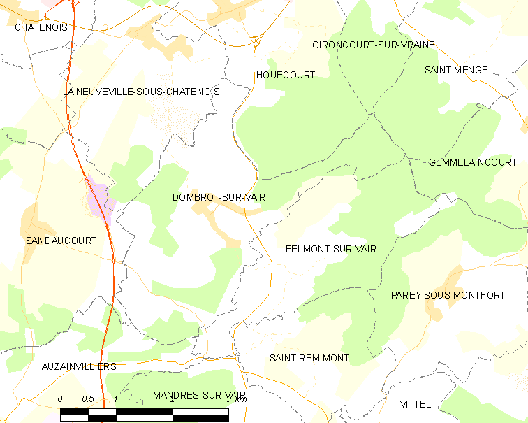 Map of French municipality Dombrot-sur-Vair